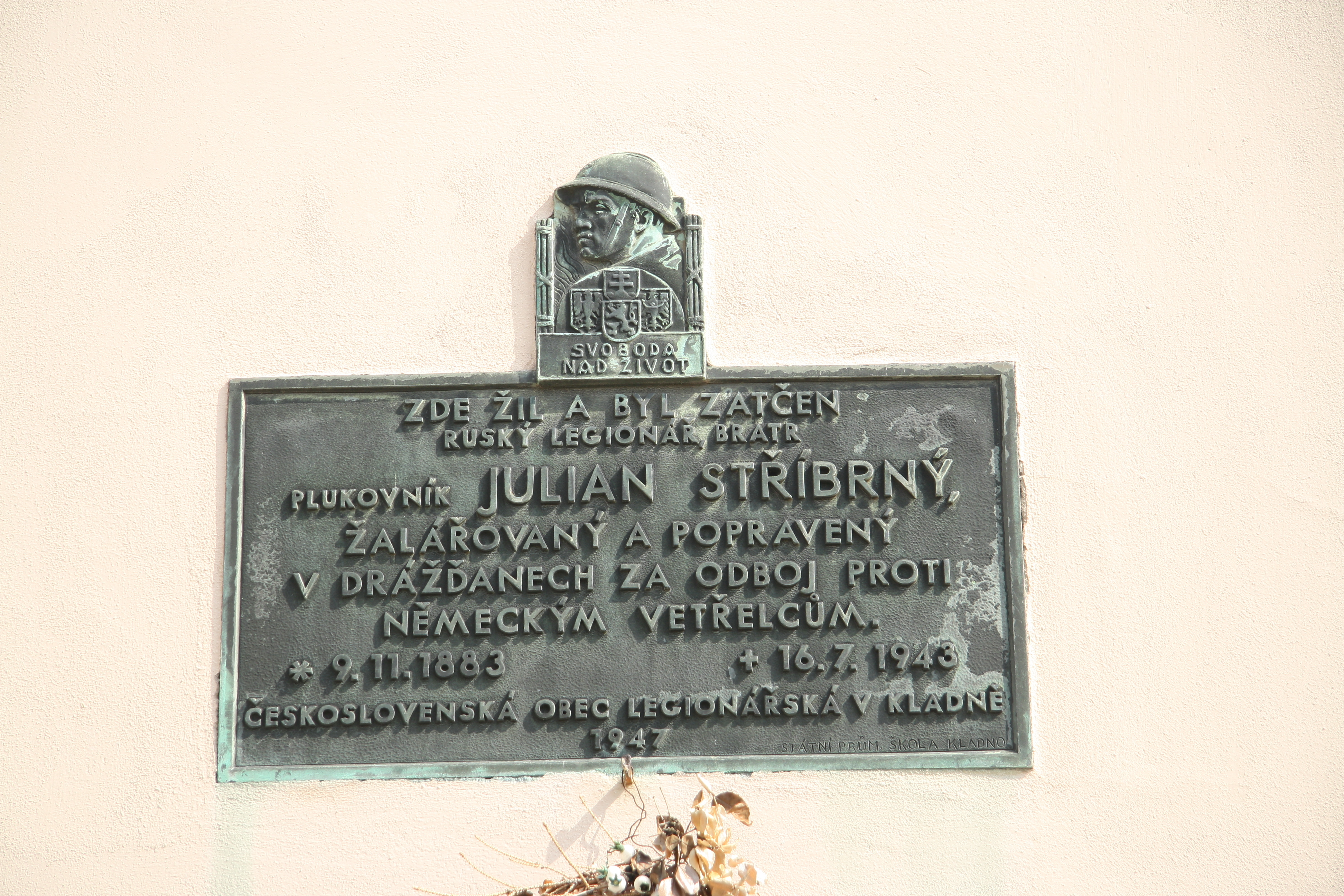 Plaque of Julian Stříbrný at Plk. Stříbrného street in Kladno, Kladno District.